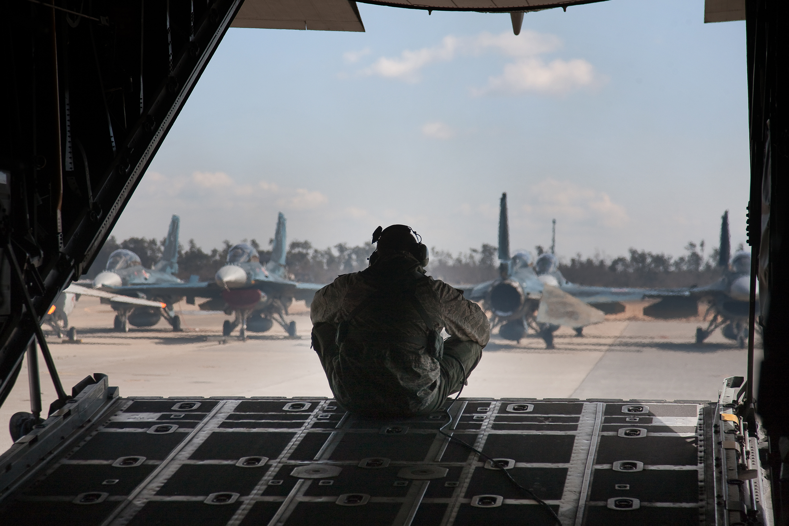 Crew conducts refueling Senior Airman Ramon Mortensen looks at damaged F-2 aircraft after landing March 18, 2011, at Matsushima Airfield to drop off relief supplies. The aircraft were damaged after an earthquake and subsequent tsunami rocked Northeastern Japan. Airman Mortensen is a loadmaster assigned to the 17th Special Operations Squadron. (U.S. Air Force photo/Osakabe Yasuo)